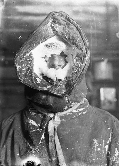 Format: Glass negative Notes: First Australasian Antarctic Expedition, 1911-1914 From the collections of the Mitchell Library, State Library of New South Wales Information about photographic collections of the State Library of New South Wales: .au/search/SimpleSearch.aspx Persistent url: .au/item/itemDetailPaged.aspx?itemID=86416